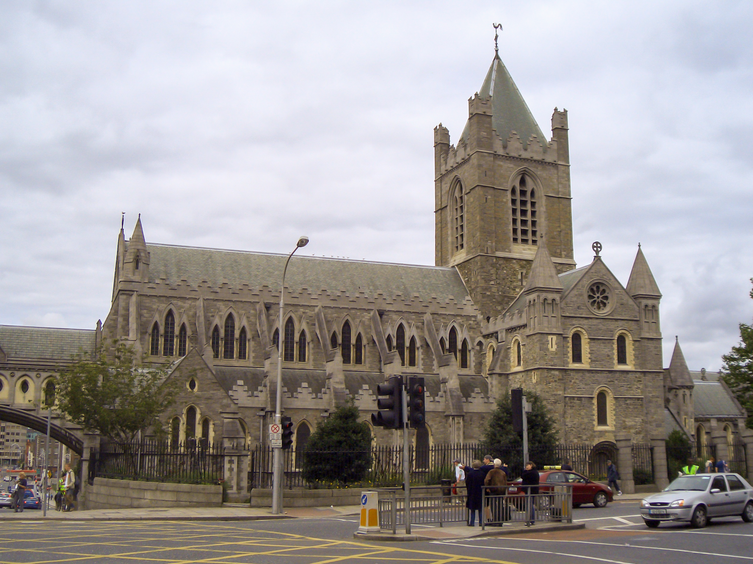 Christ Church Cathedral, Dublin, Ireland